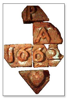 Brick cartouche that would have surmounted the lintel of the door of John Page's house in Williamsburg, Virginia. The six bricks would have portrayed a P for Page, a J (lost), an A for his wife Alice, and a heart at the bottom